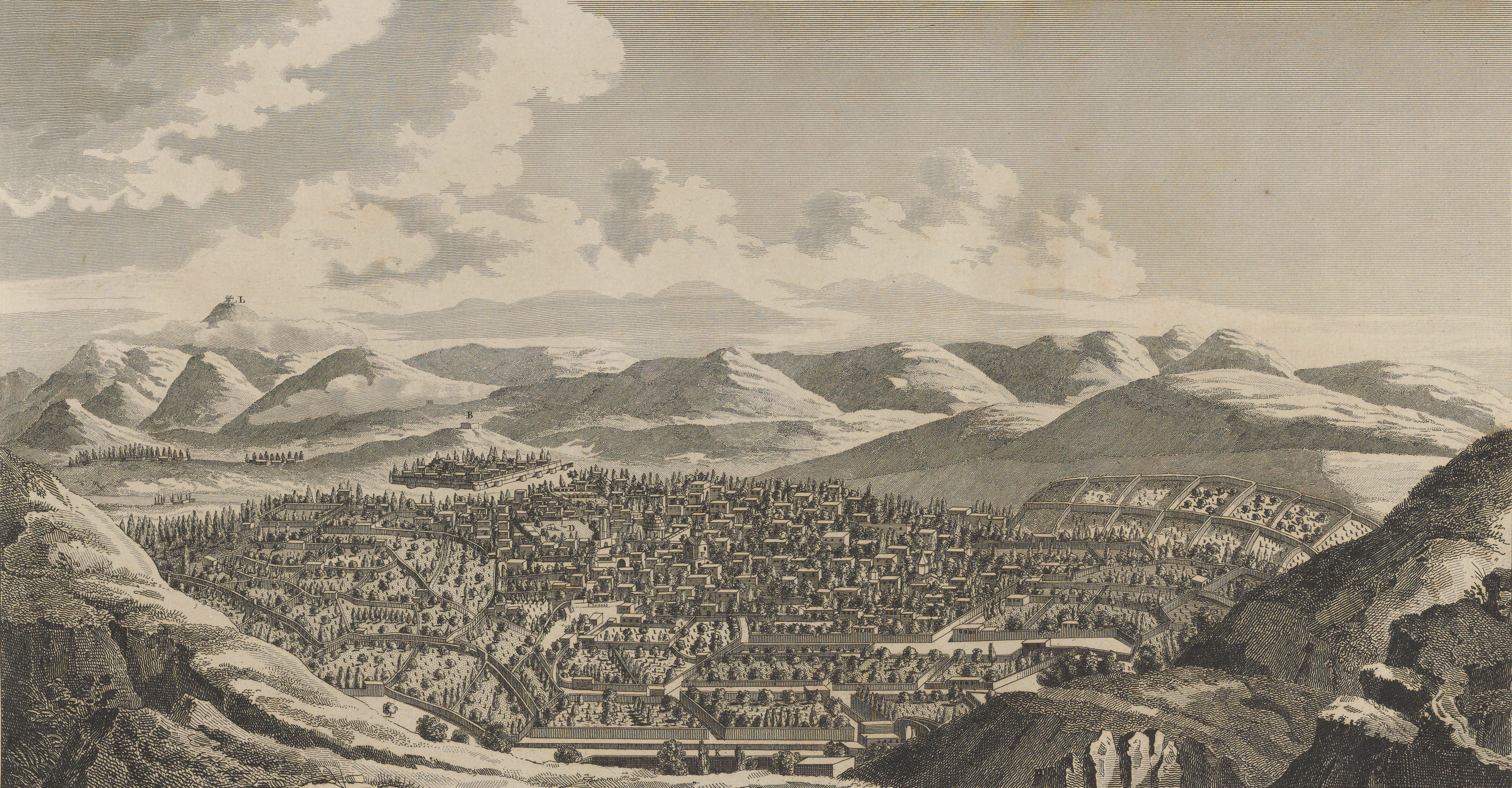 Yerevan panorama , original captio: "Irivan"